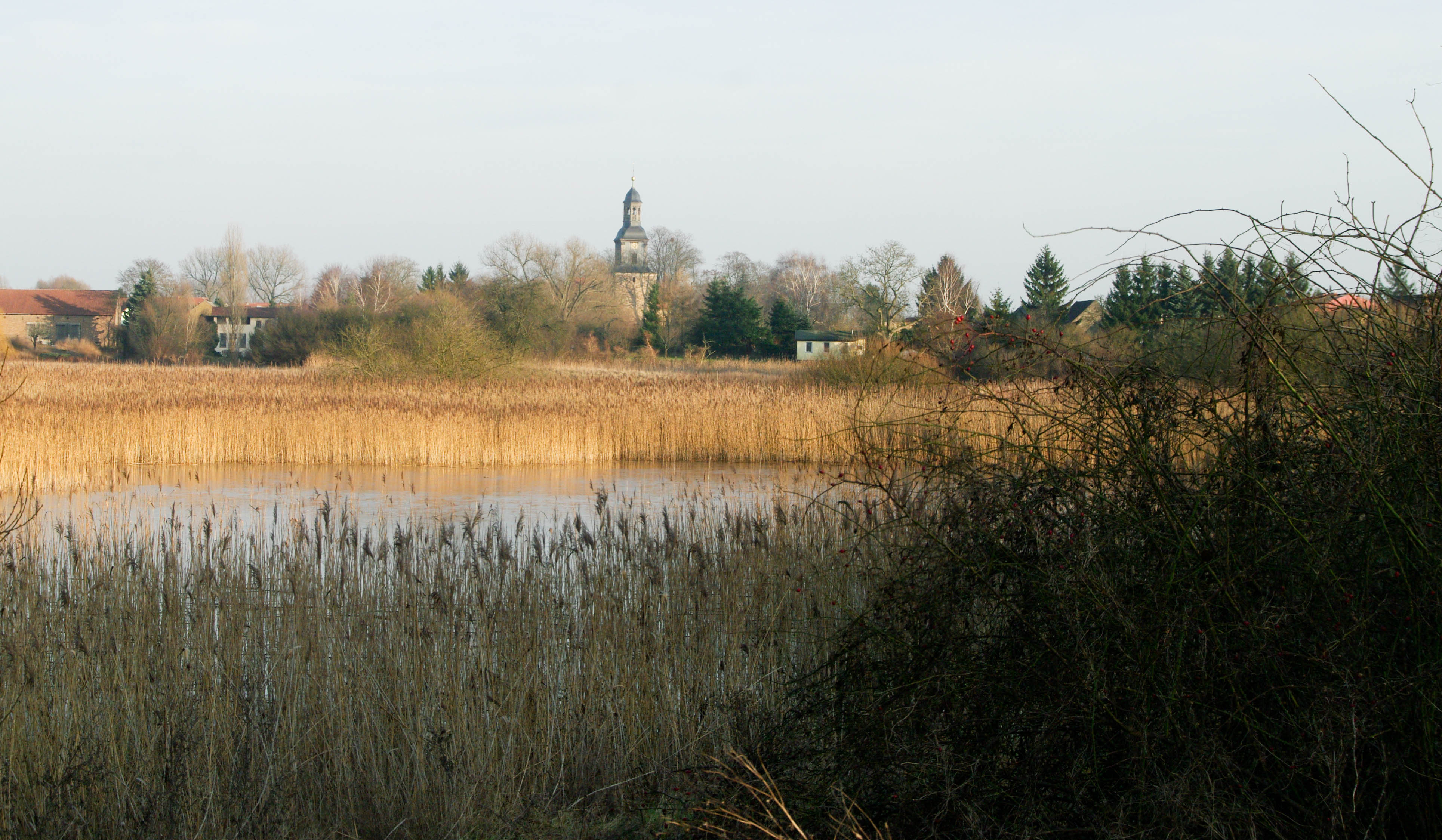 Vehlefanz, Brandenburg, Germany in winter